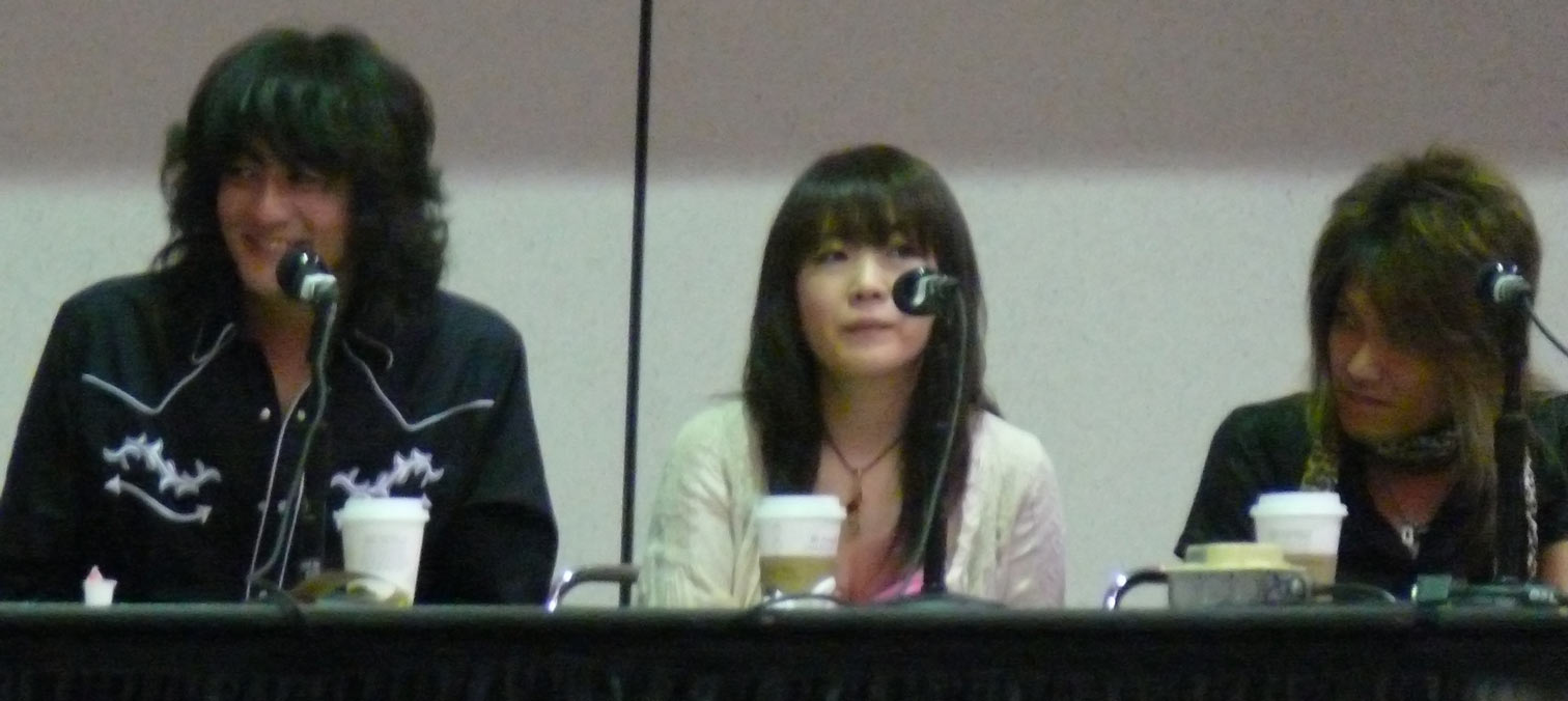 Members of JAM Project answering questions from fans during their World Flight 2008 No Border. (Left to Right) Yoshiki Fukuyama, Masami Okui, and Hiroshi Kitadani.